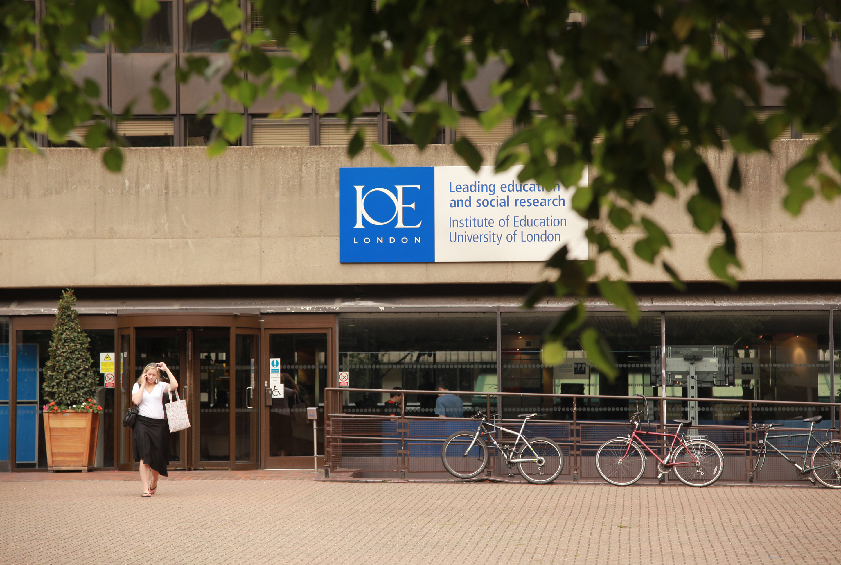 The main building of the Institute of Education, University of London, situated just next to Russell Square in the centre of London